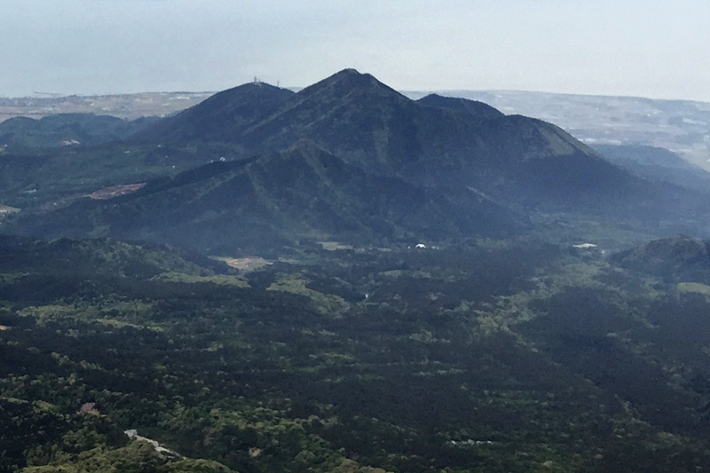 Koreisan seen from the southeast, in Tottori Prefecture, Japan. Taken from Daisen